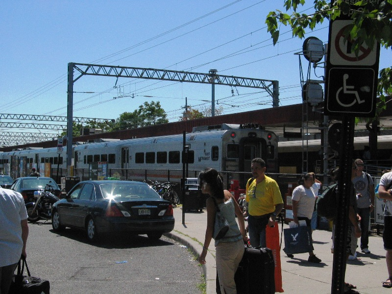 the train of Comet V cars is preparing to leave Long Branch, NJ from Bay Head, NJ